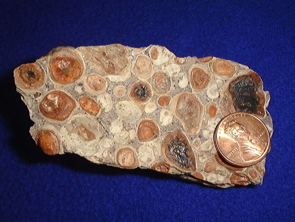 Bauxite